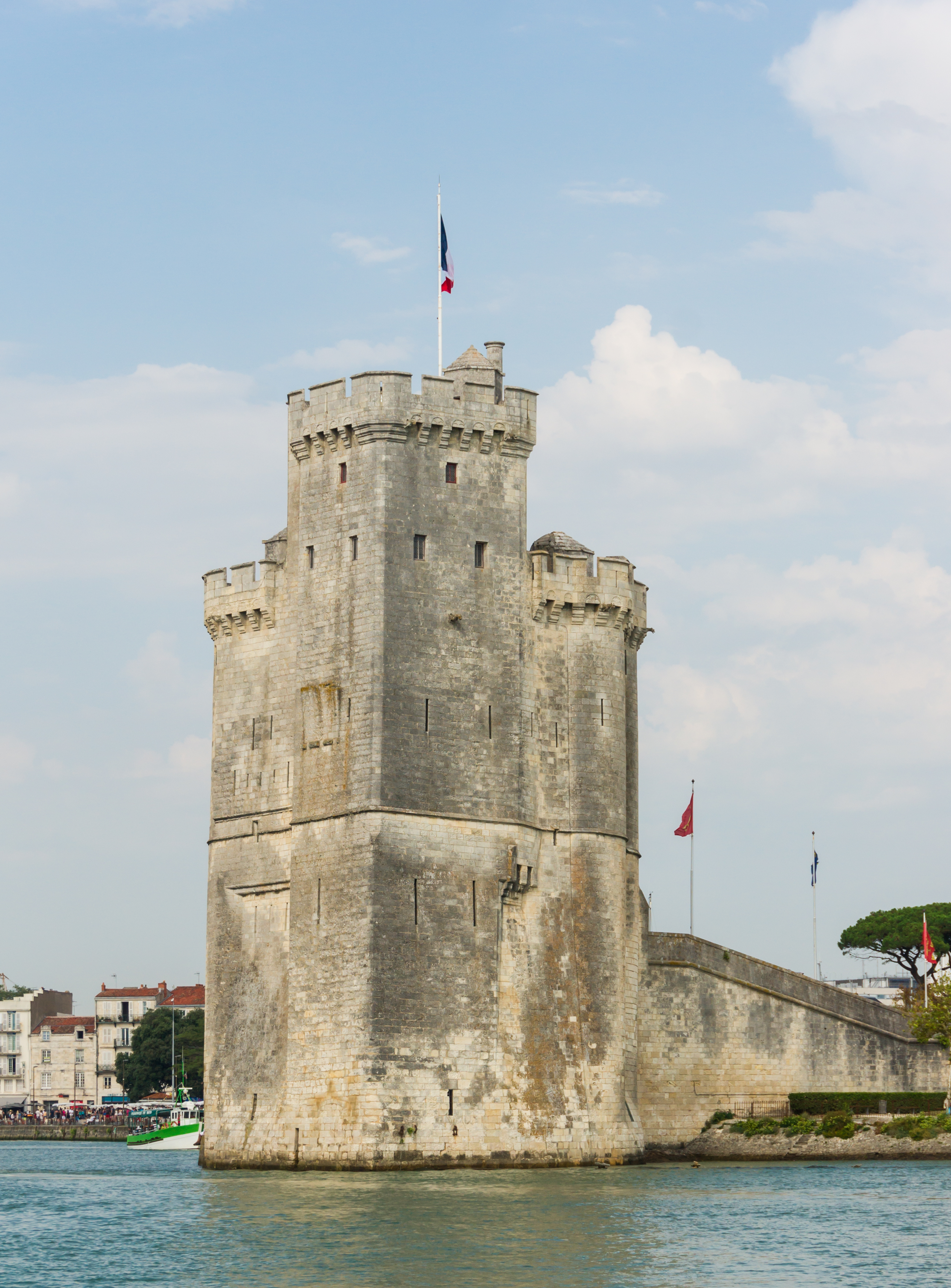 Saint-Nicolas tower of old harbour of La Rochelle, Charente-Maritime, France.